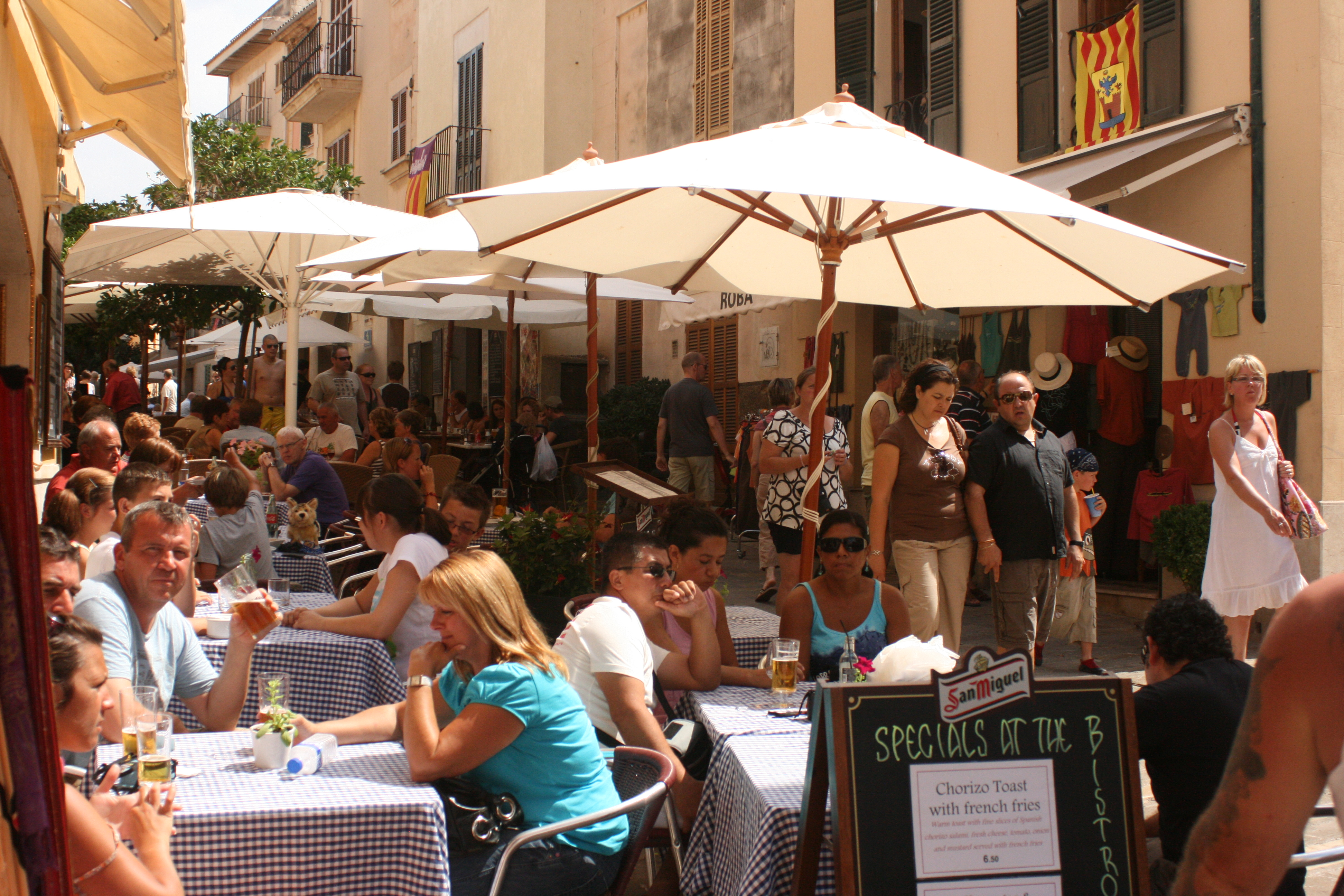 Bistro Bell in Alcudia in Mallorca, Spain.